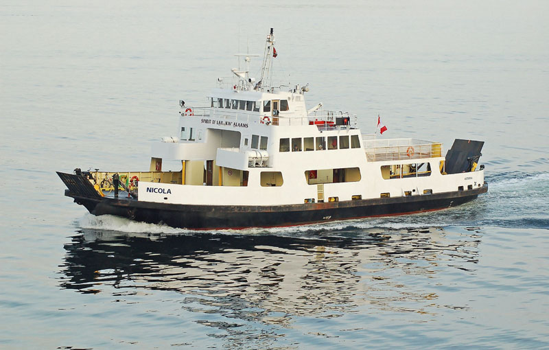 Nicola in Prince Rupert Harbour.